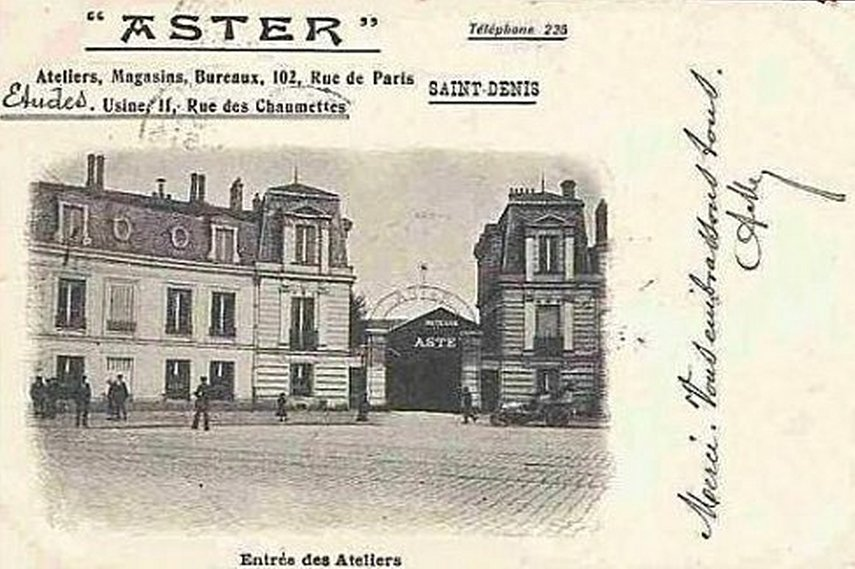 Postcard of the 'Entrance to the Factory' of the Ateliers de Construction Mecanique l'Aster at 102 rue de Paris, Saint Denis